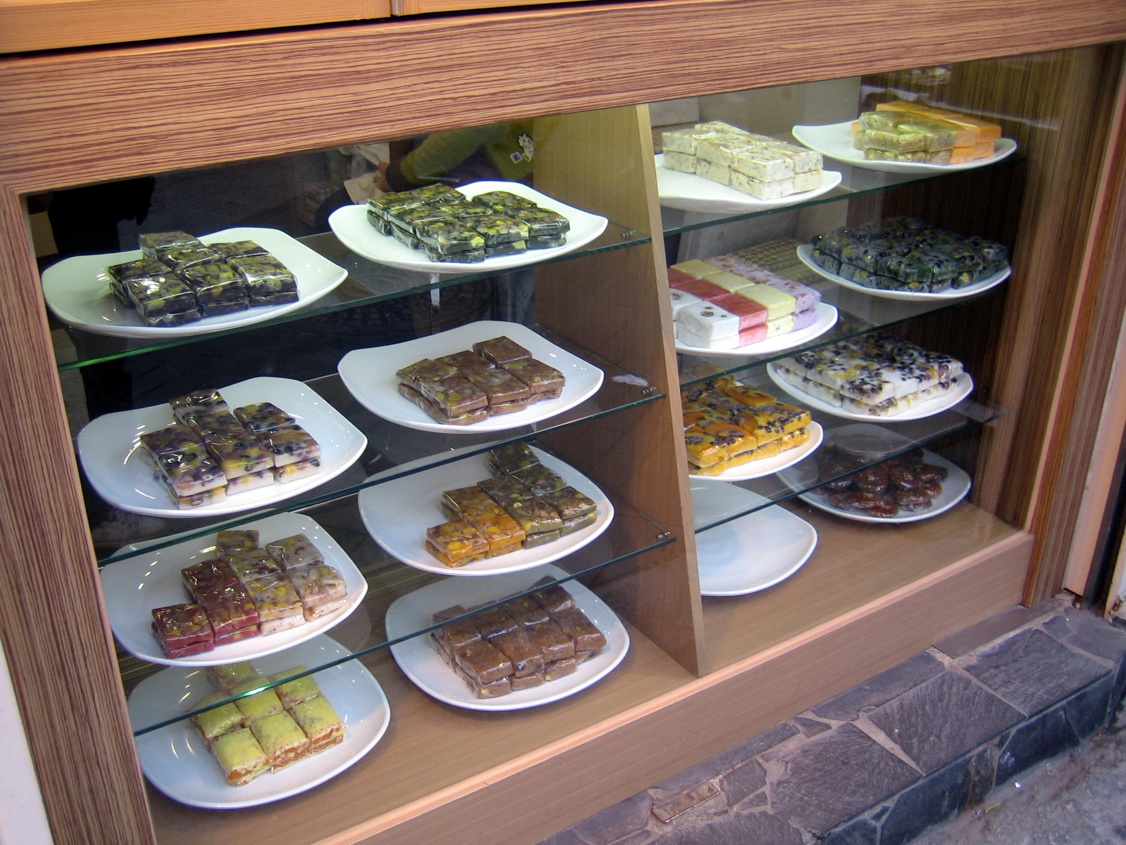 Tteok bang (rice cake shop) in Insadong, Seoul, South Korea